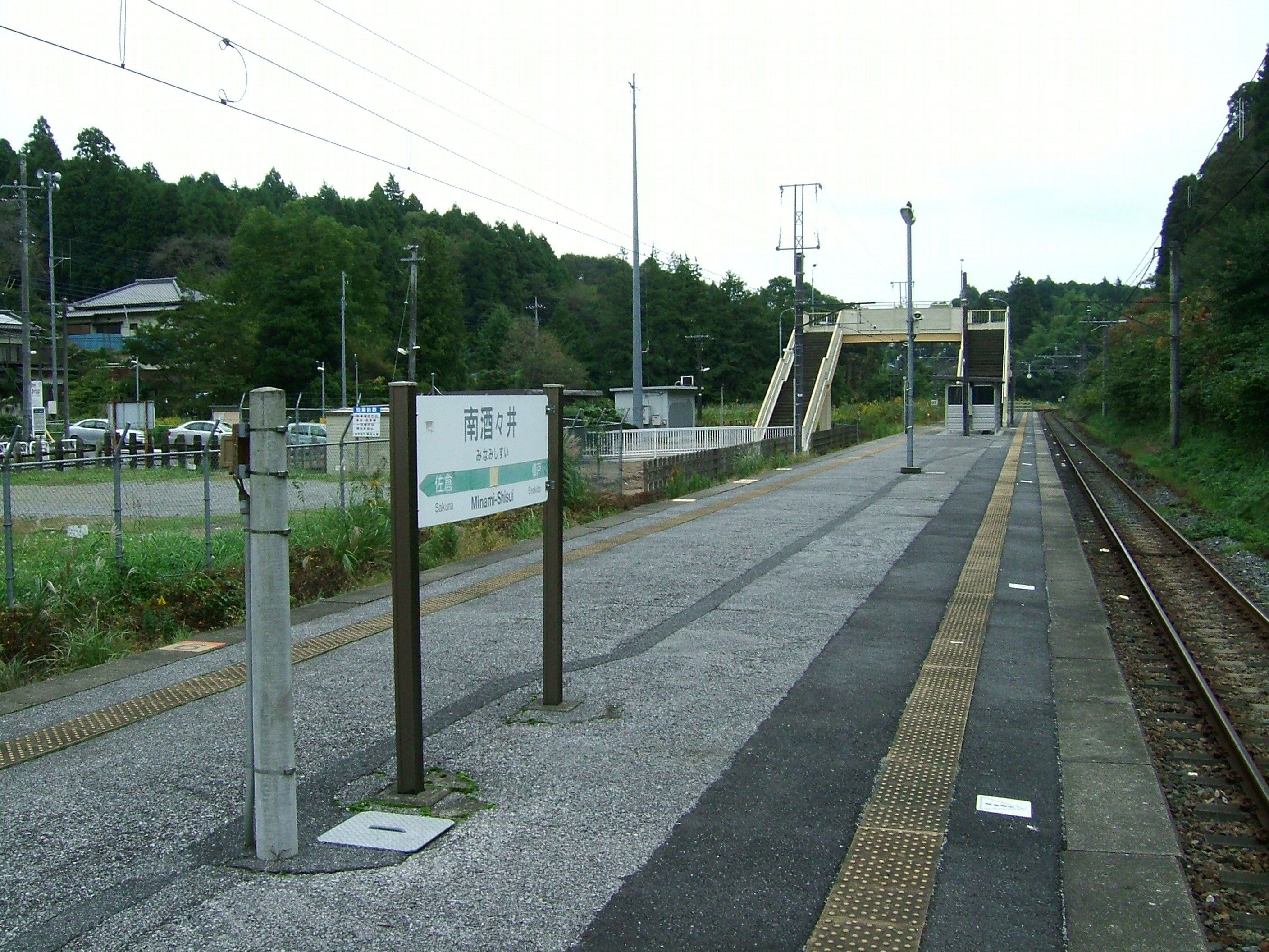 Minami-Shisui Station platform (East Japan Railway Sōbu Main Line)